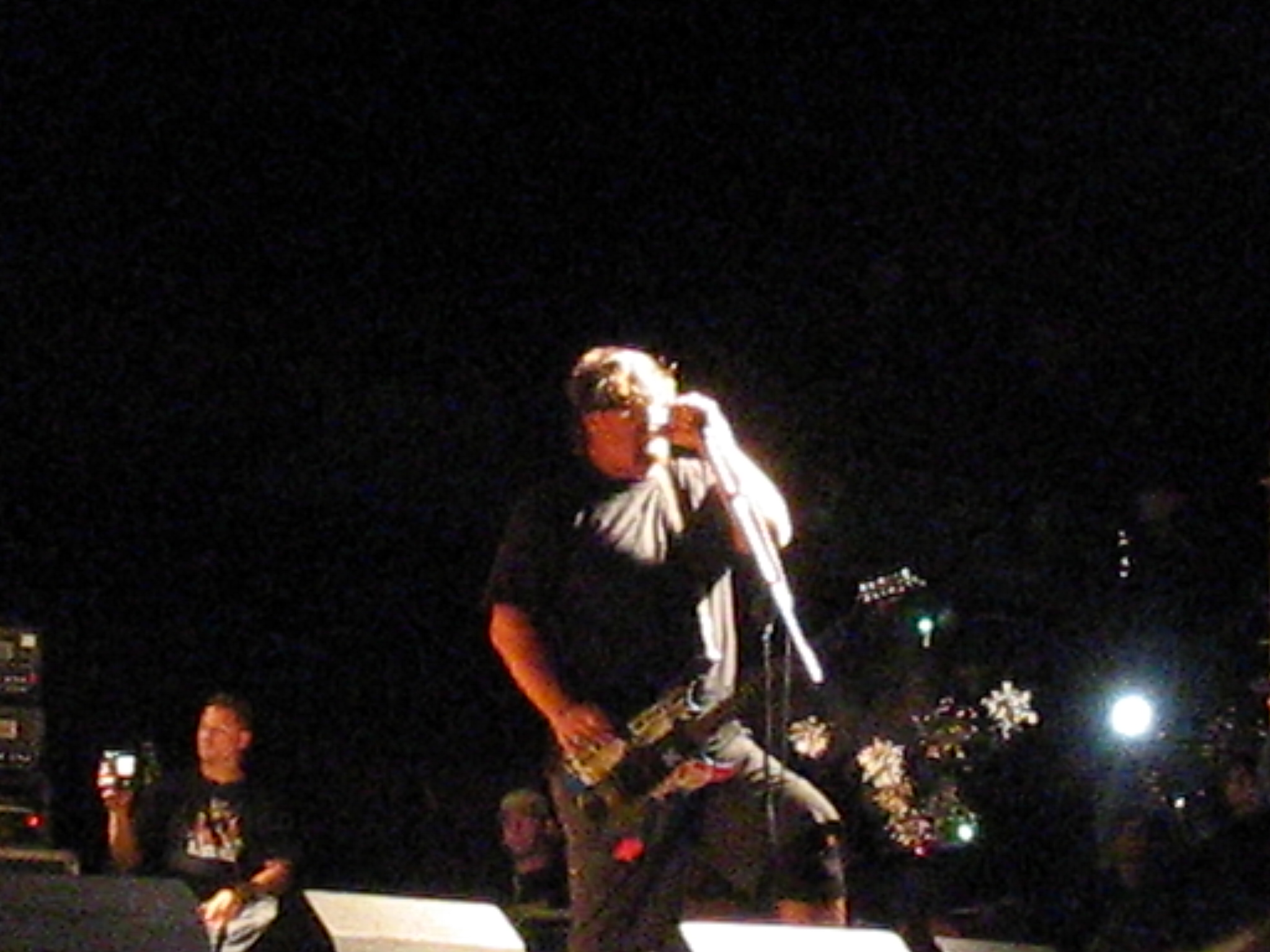 Fletcher Dragge from Pennywise in concert @ My Summer Fest, Cagliari, Italy.